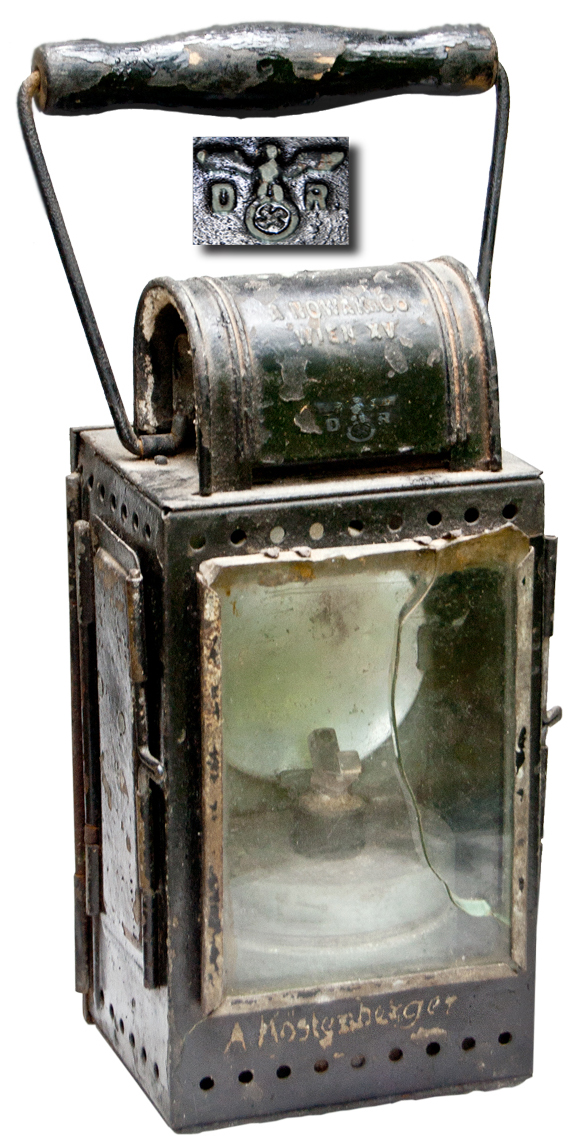 Deutsche Reichsbahn (German Reich Railway) conductor/trainman's lantern with brass carbide burner c1942; embossed WWII military DR Nazi Alter und Hakenkreuz logo (insert) Manufacturer's mark: "A NORWAK&Co WIEN XV" (Vienna) Trainman's name "A. Köstenberger" scratched on face under lamp.